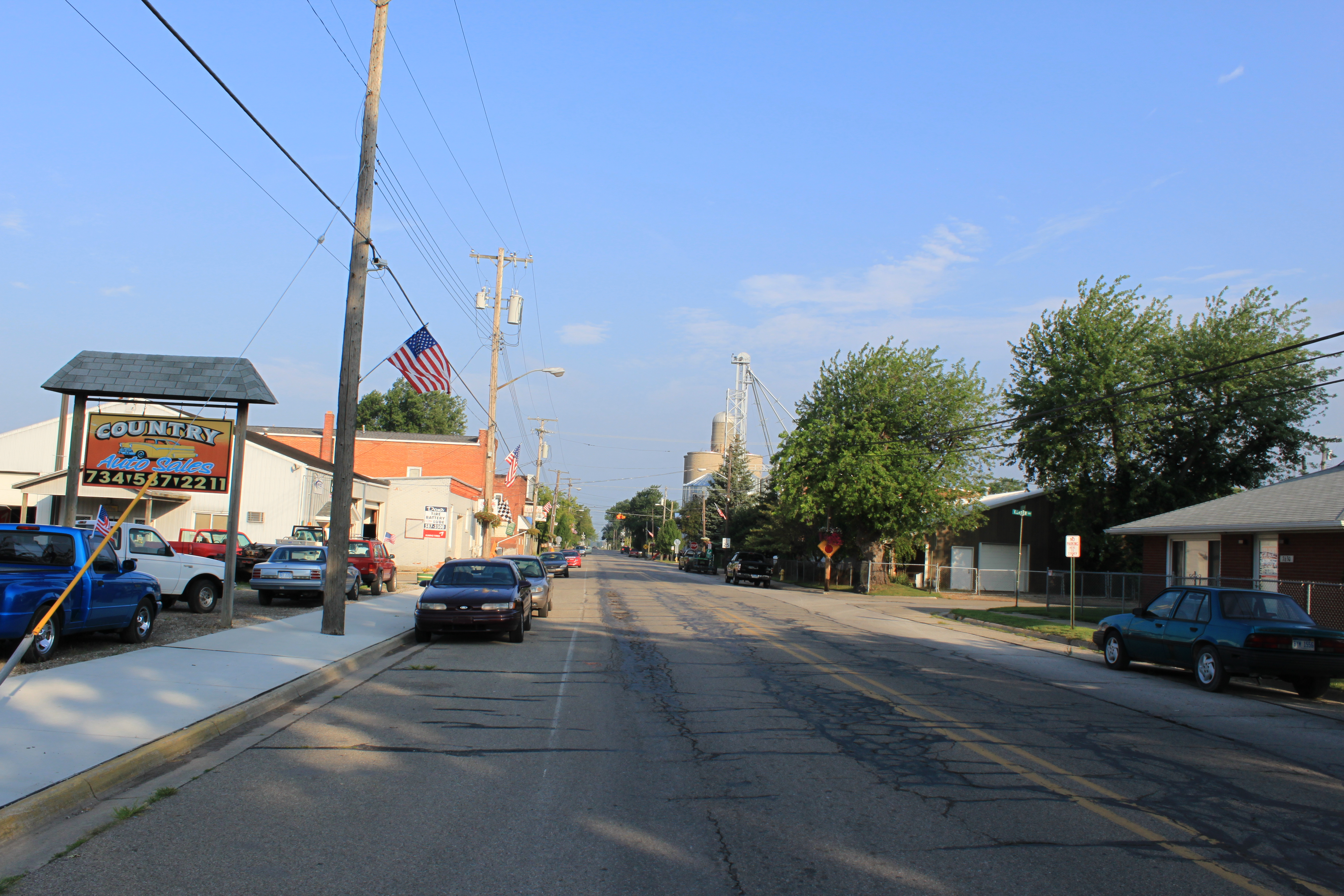 Maybee Michigan, Bluebush Road facing west